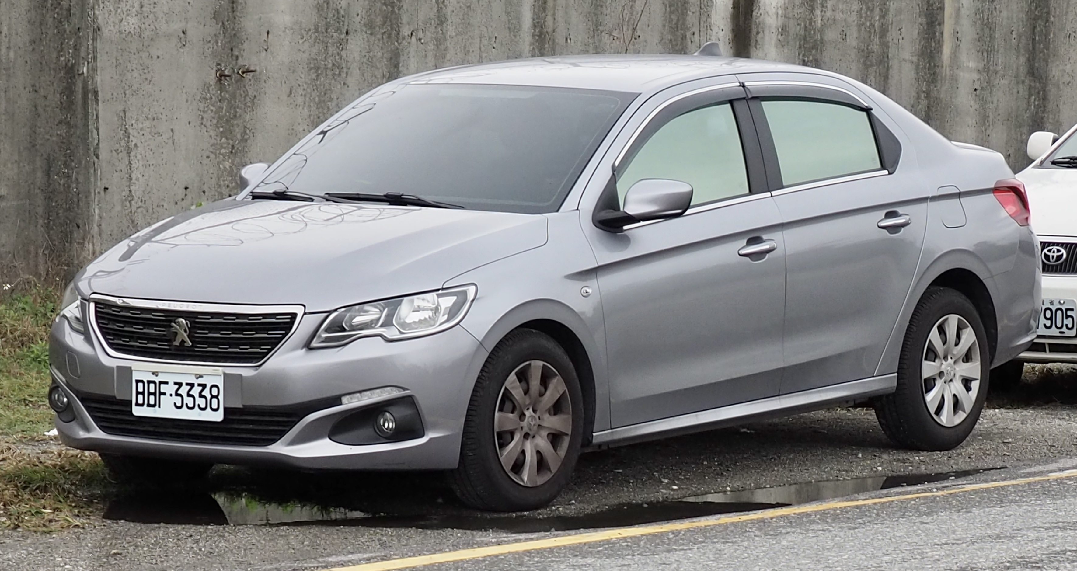 A 2017 Peugeot 301 photographed in Sincheng Township, Hualien County, Taiwan